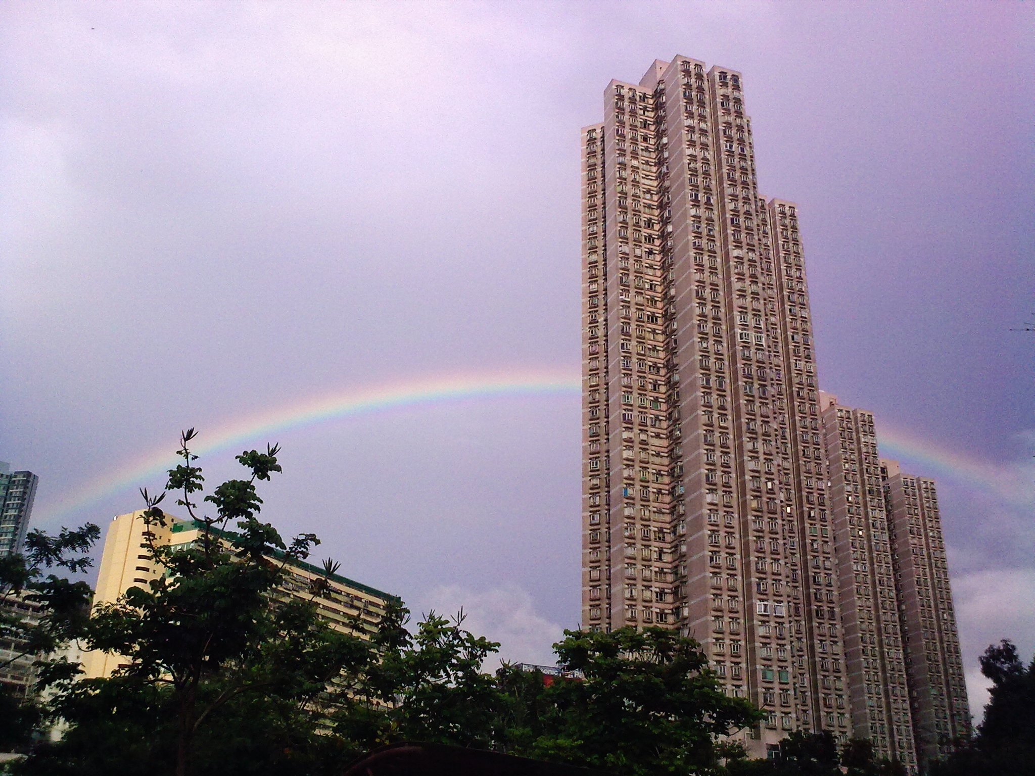 Waterside Plaza